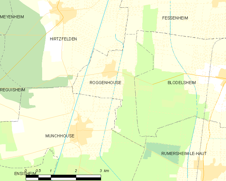 Map of French municipality